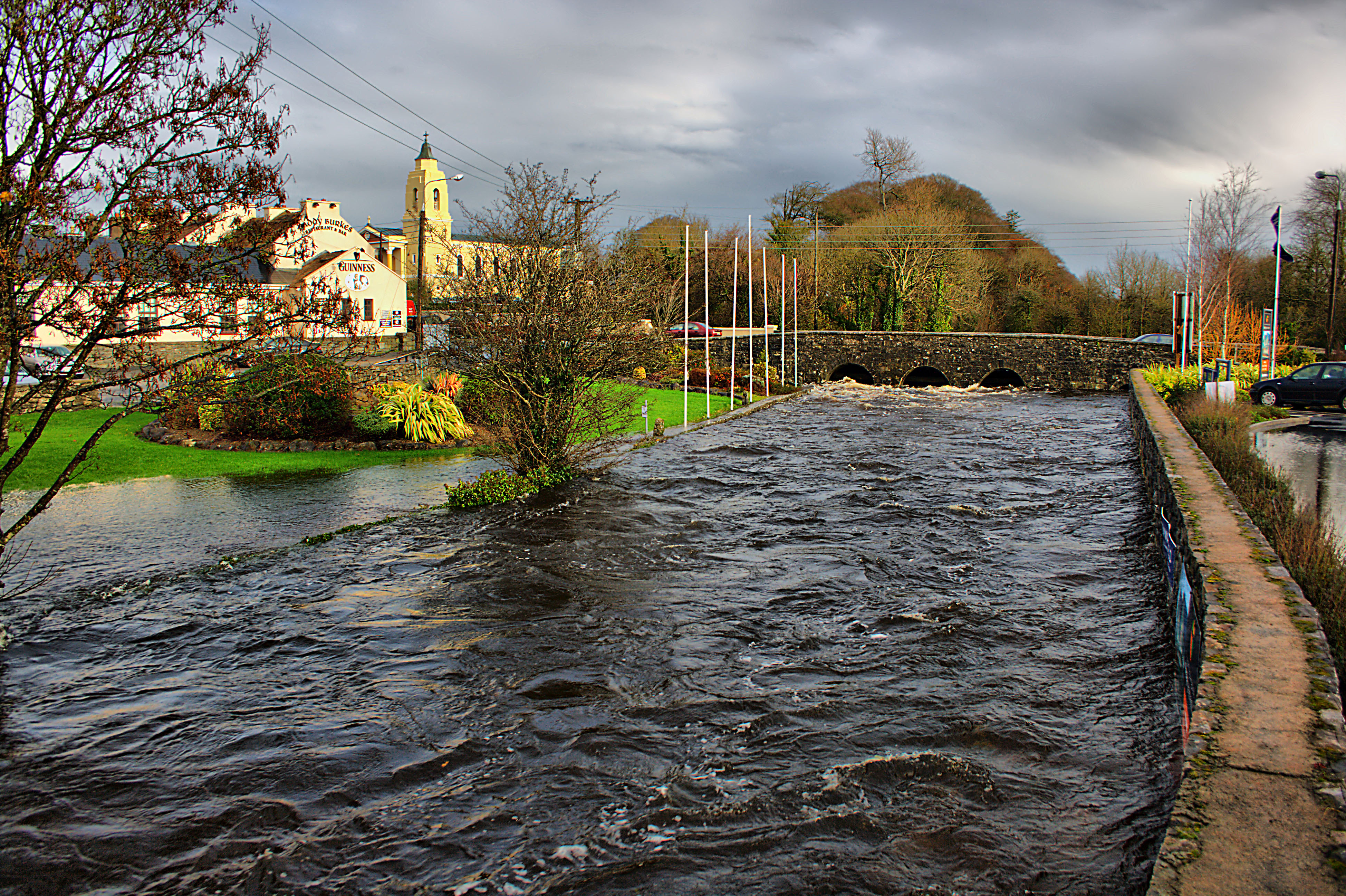 The Clarin river, Clarinbridge, bursts its banks due to days and days of continuous rain.